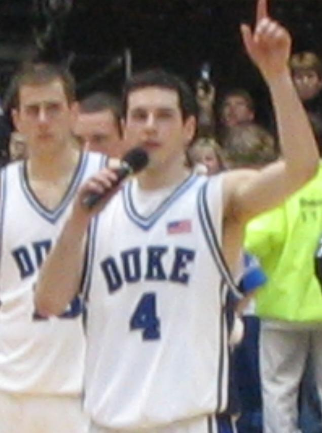 J speaking to the crowd after his last game in Cameron Indoor Stadium